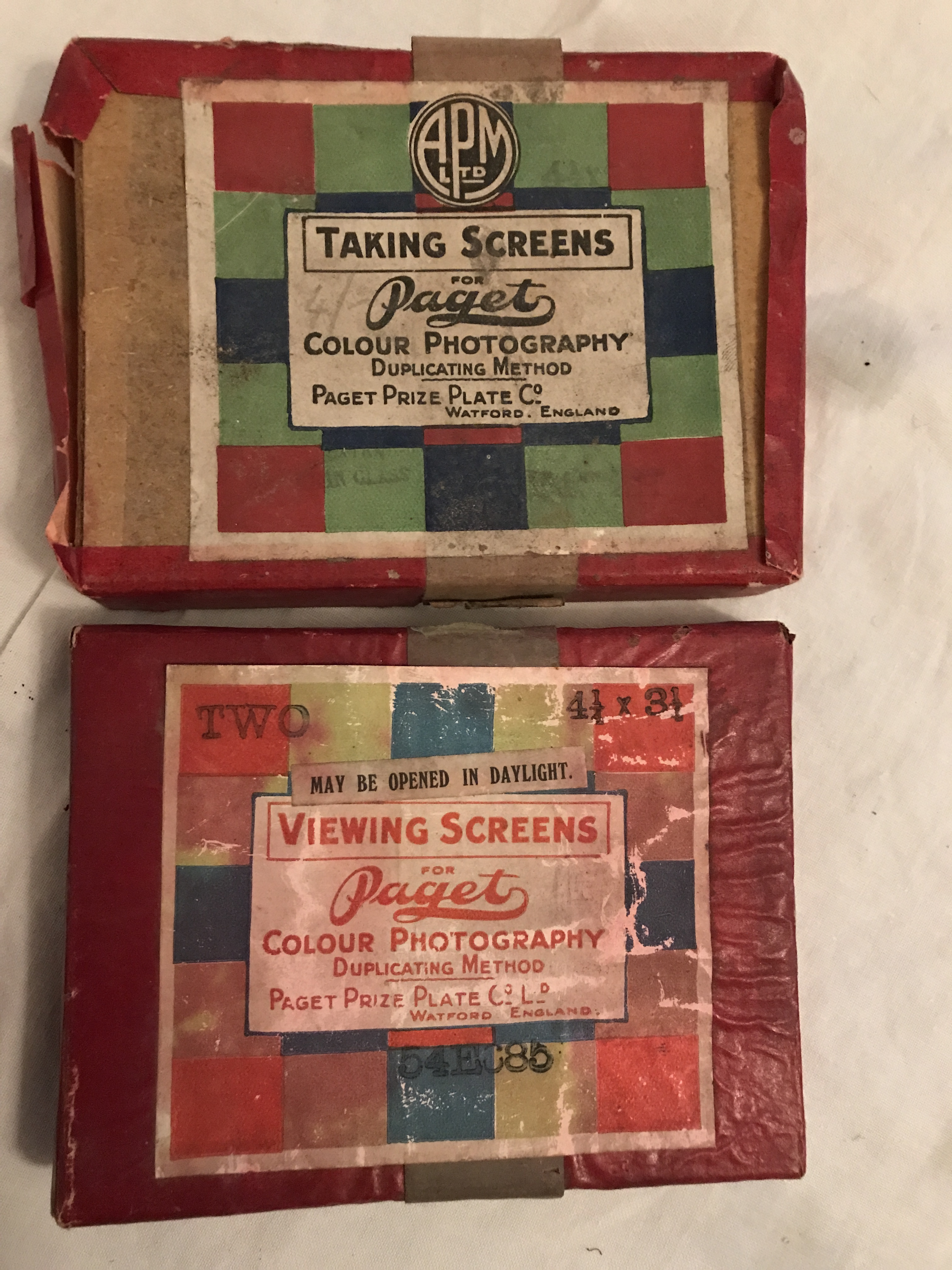 Paget Plates Boxes. By Chris Bonfiglioli.